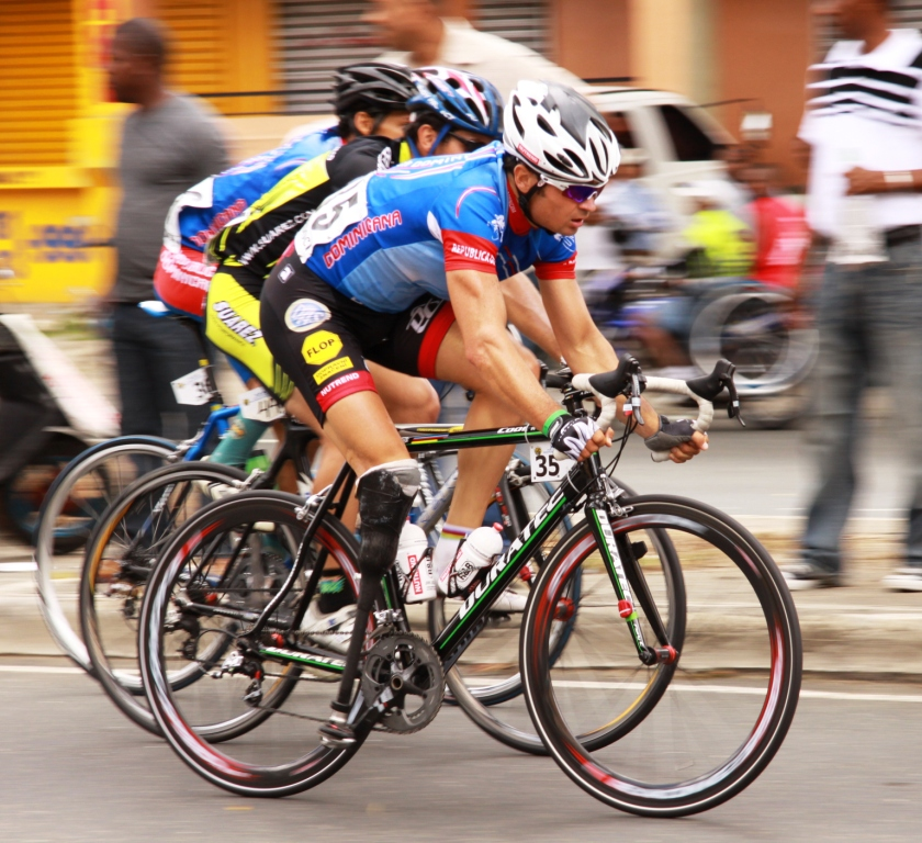 Jiří Ježek (CZ) in the Dominican Republic, March 2009